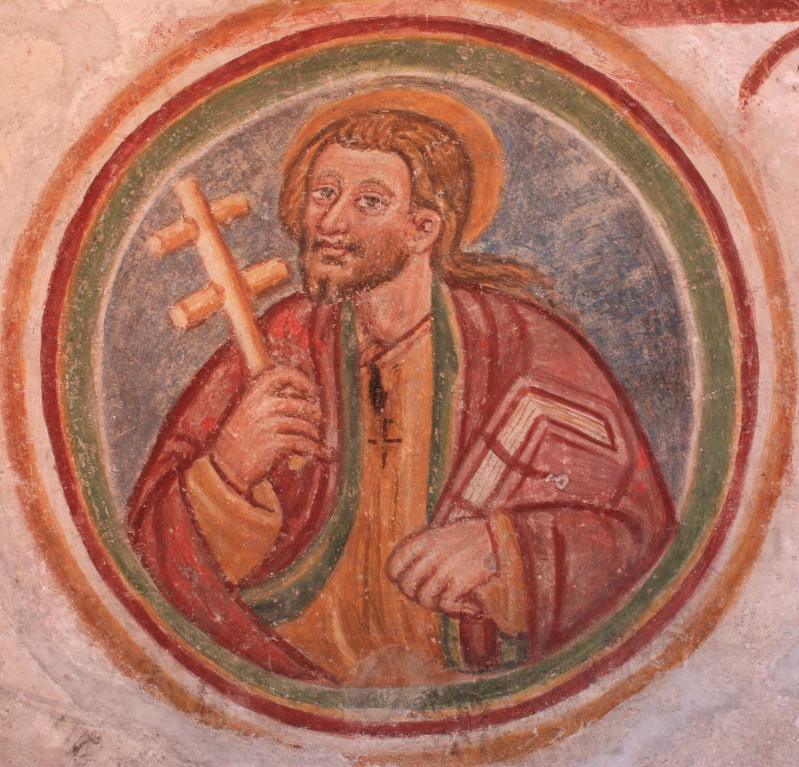 Parish church Saint Florian -Apostle Locality: Rinkenberg/Vogrce Community:Bleiburg